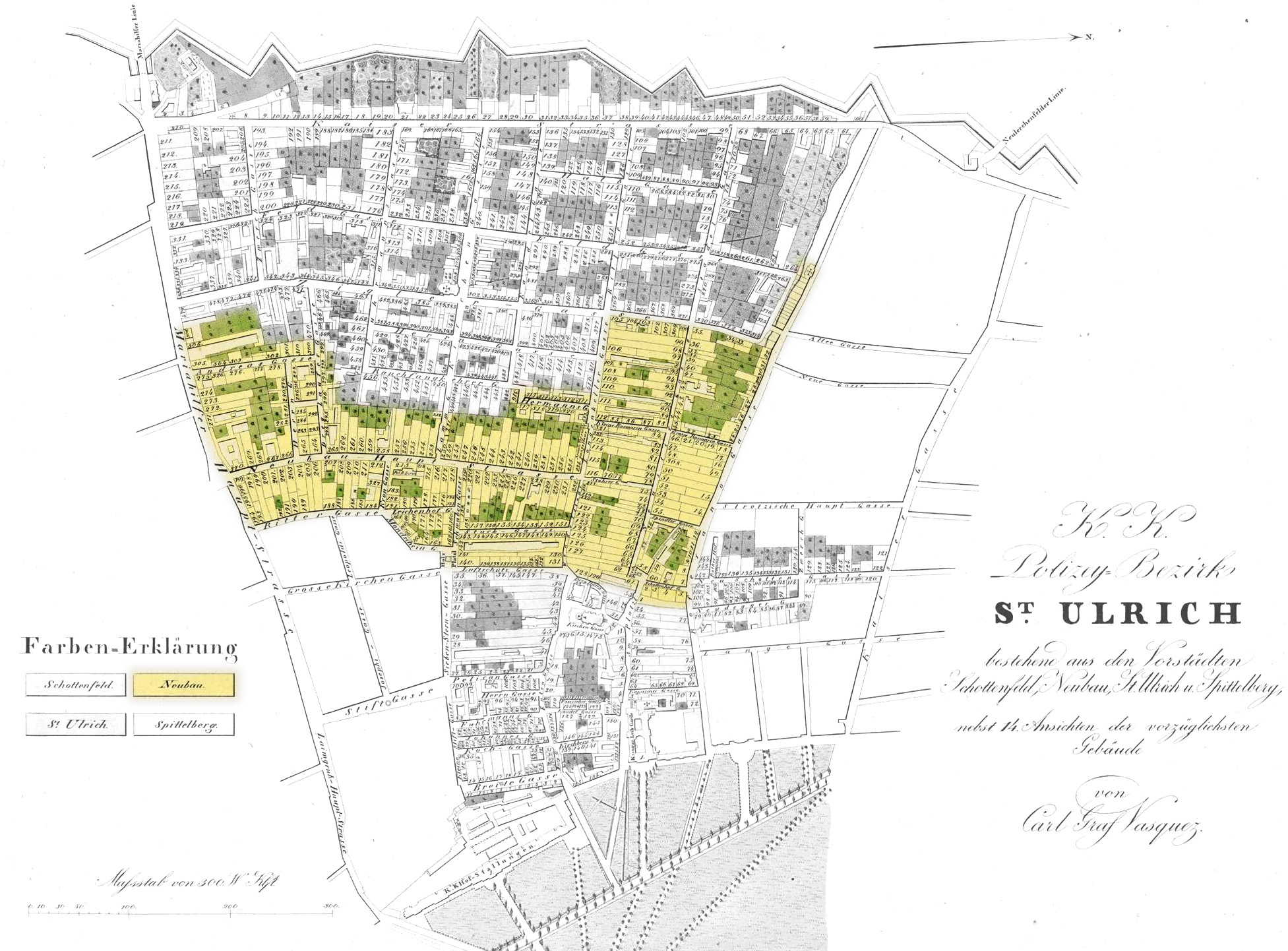 Map of Vienna / Neubau, approx. 1830